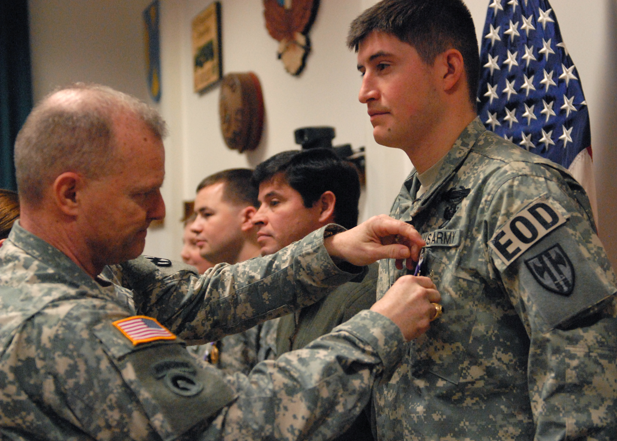 Staff Sgt. Beau M. Martindale is awarded the Purple Heart by Maj. Gen. Yves J. Fontaine during a ceremony on Coleman Barracks